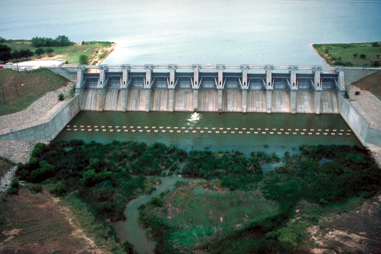 Aerial view of Proctor Lake and Dam on the Leon River in Comanche County, Texas, USA. The dam is located approximately 10 miles (16 km) southwest of Dublin, Texas. The U.S. Army Corps of Engineers constructed the dam in 1963 for flood control and water supply. This concrete and earth-fill dam is over 1.5 miles (2.5 km) long, but this photograph shows only the central water-control structure of the dam. Coordinates: 31°58′8.86″N 98°29′8.03″W / 31.9691278°N 98.4855639°W